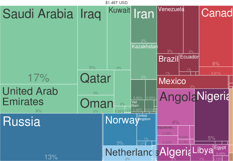 Petroleum Exports by Country (2014)